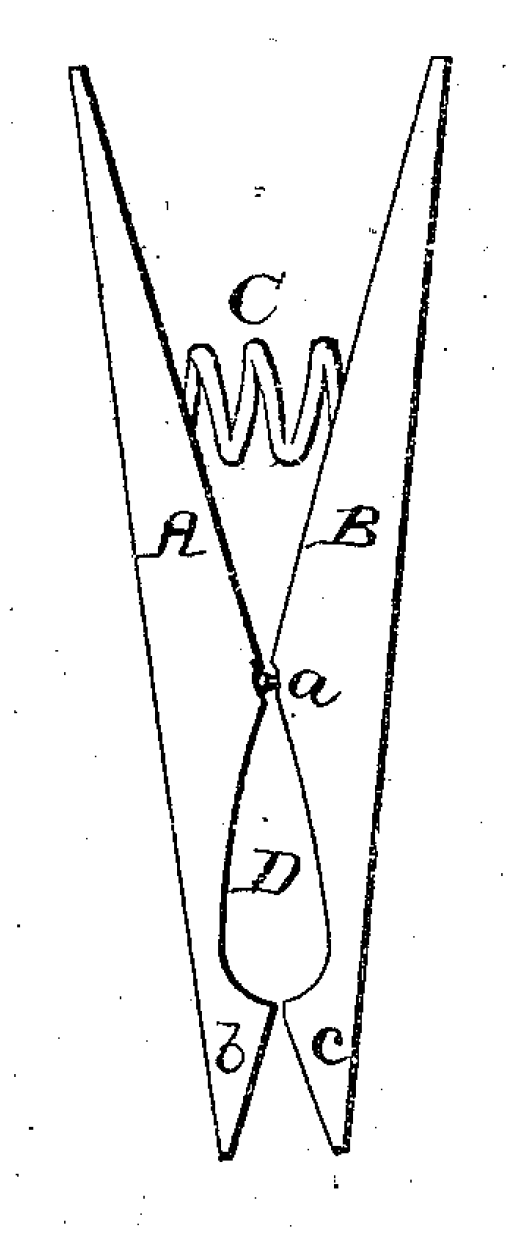 An illustration of the first modern clothespin (1853, US Patent 10,163, Fig. 1)